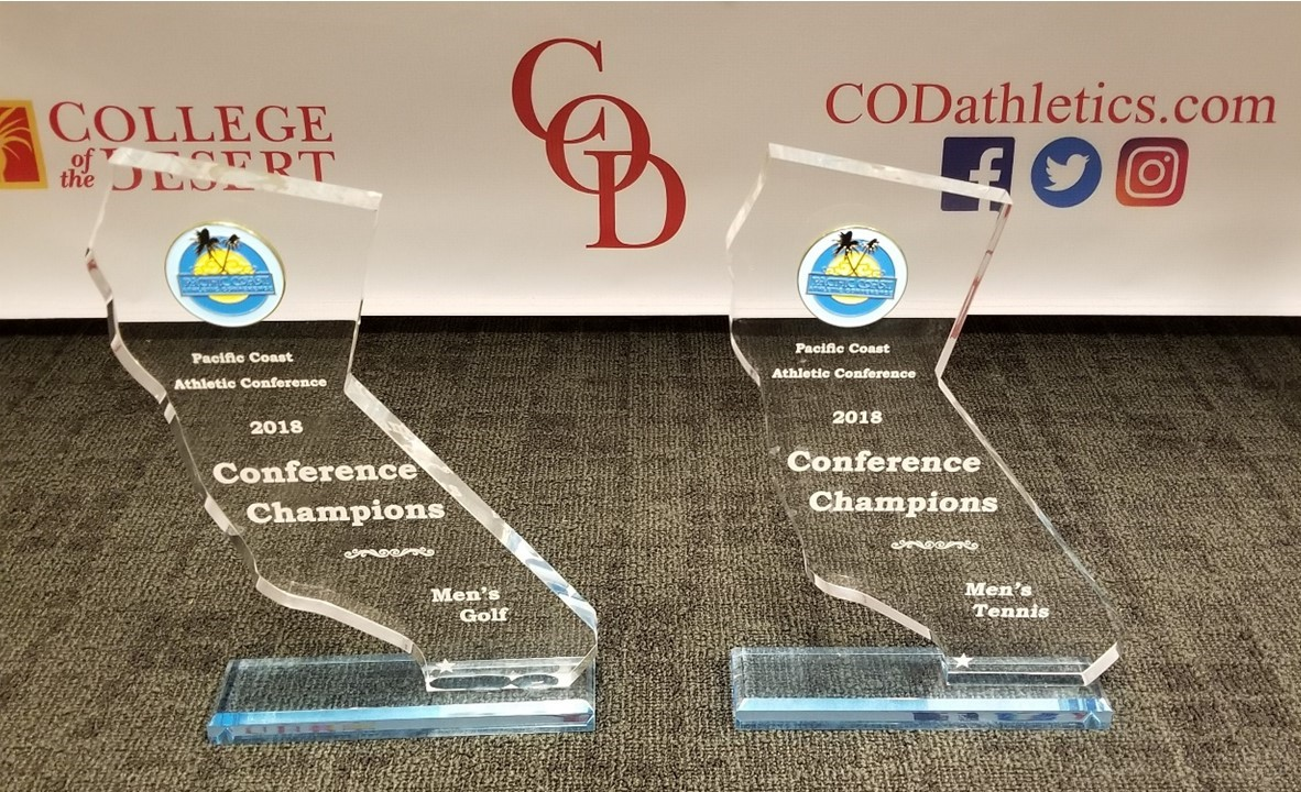 Pacific Coast Athletic Conference (PCAC) Championship Trophies for 2018 for Men's Golf and Men's Tennis.